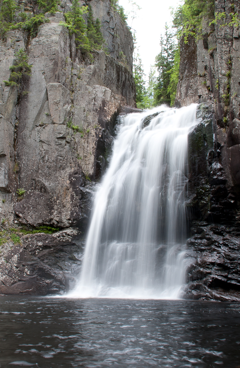 Trollfoss in Lardal, Norway